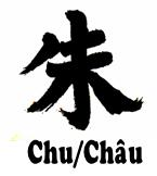 Chau chu